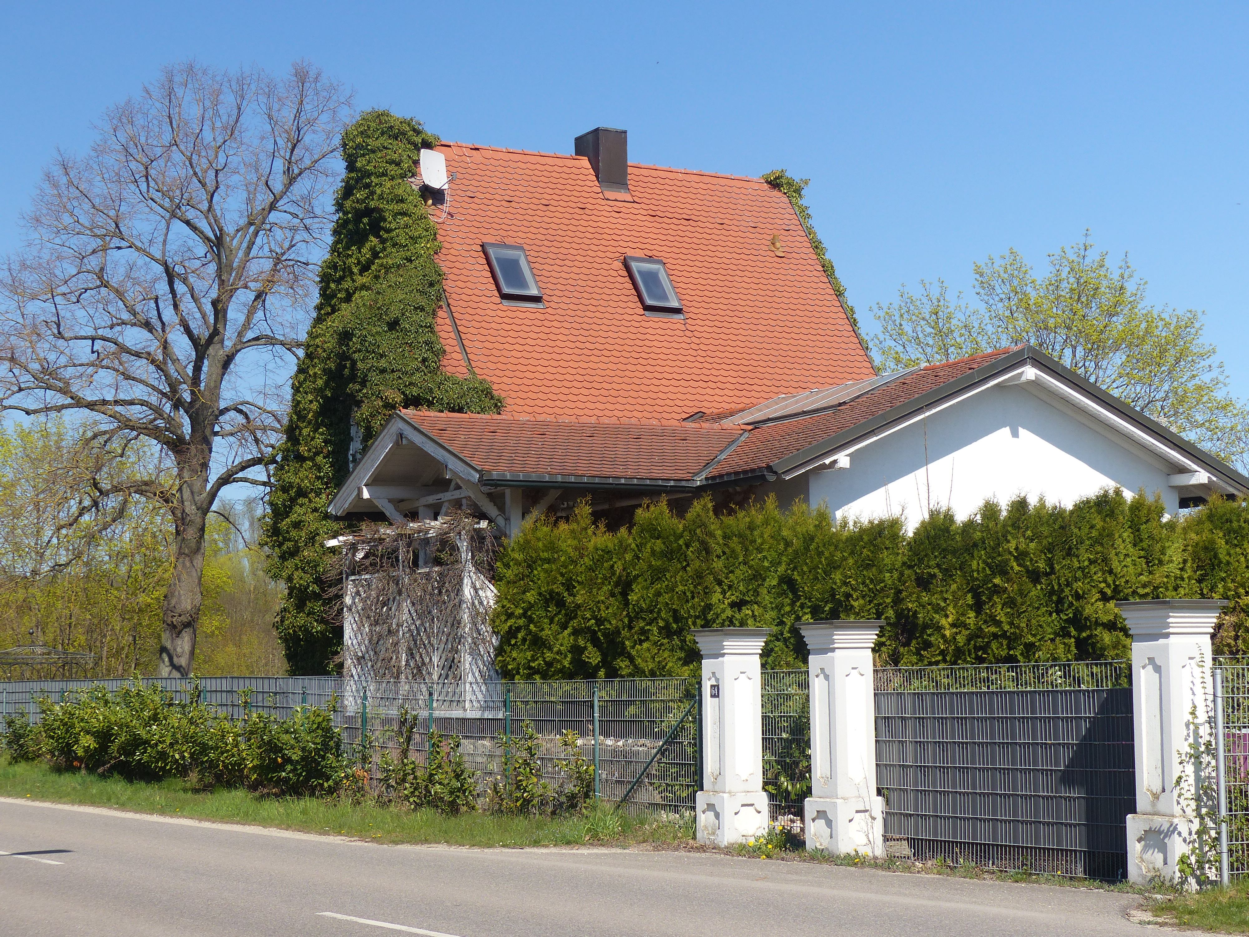 The station building of the former railway station Drahthammer.